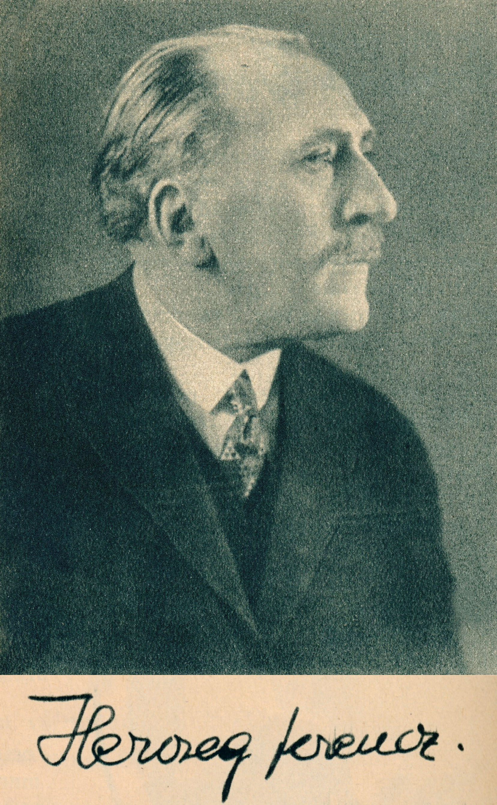 Ferenc Herczeg - Hungarian Writer